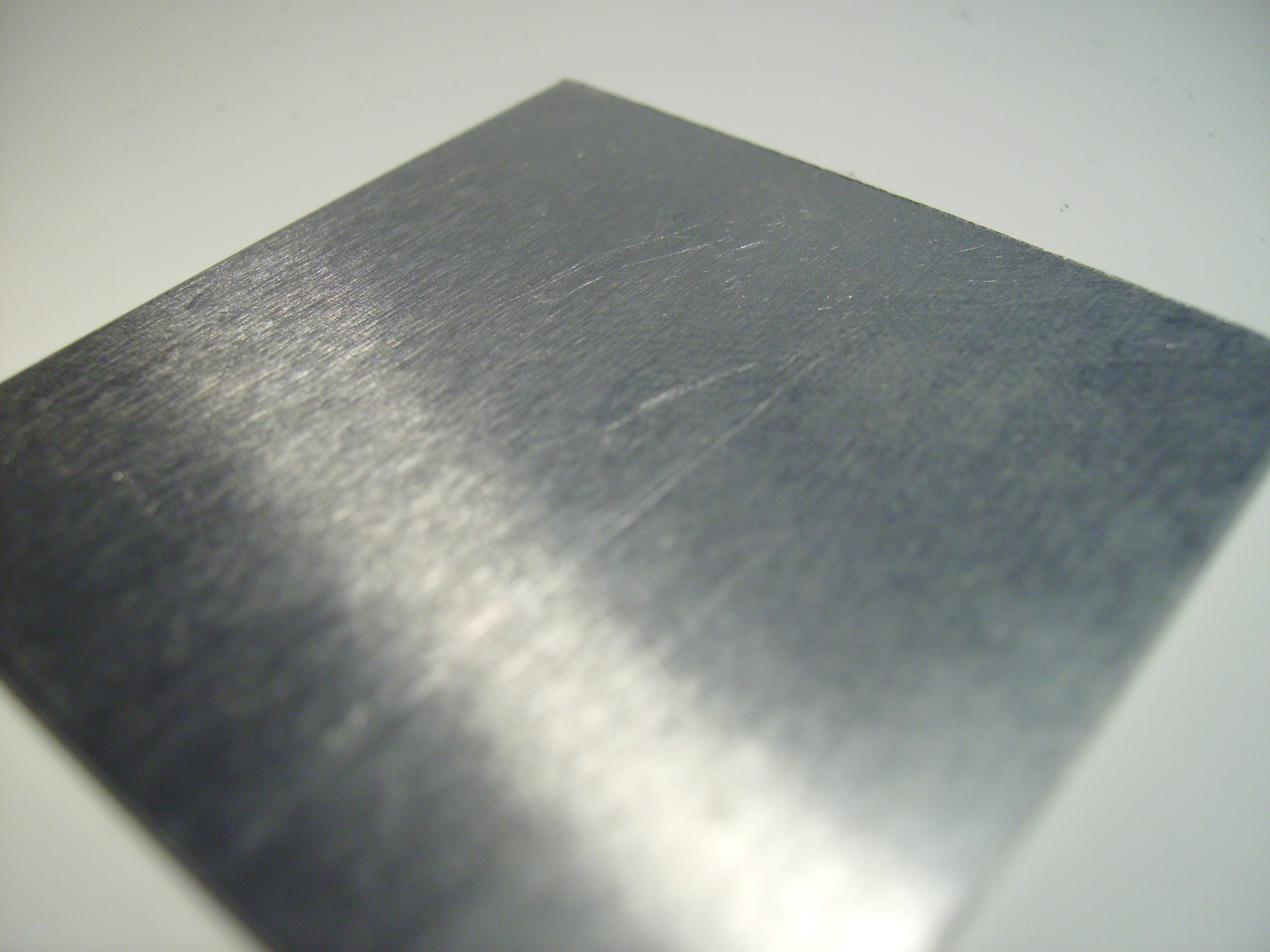 Brushed Aluminium.jpgClose-up of a piece of brushed aluminium metal.